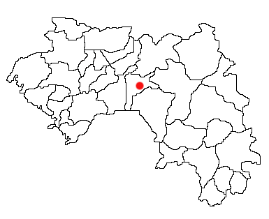 Dabola, Guinea Location Map; created with the GIMP. Made by User:Acntx.